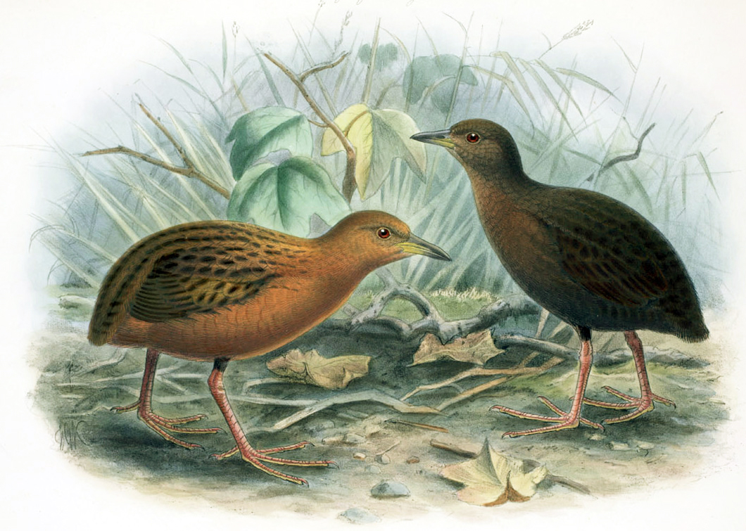 Illustration from Rothschild (1893-1900). Source